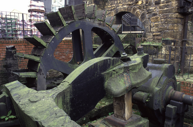 Preserved hammer at Kirkstall Forge Nose helve hammer operated by a water wheel. This was preserved in a large working forge that had a very long history. The forge has now been demolished but this hammer and the company museum with some small steam hammers still survive and I believe will be retained.